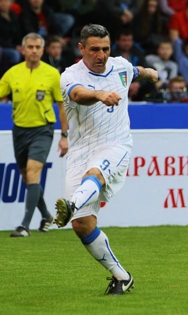 Bruno Giordano